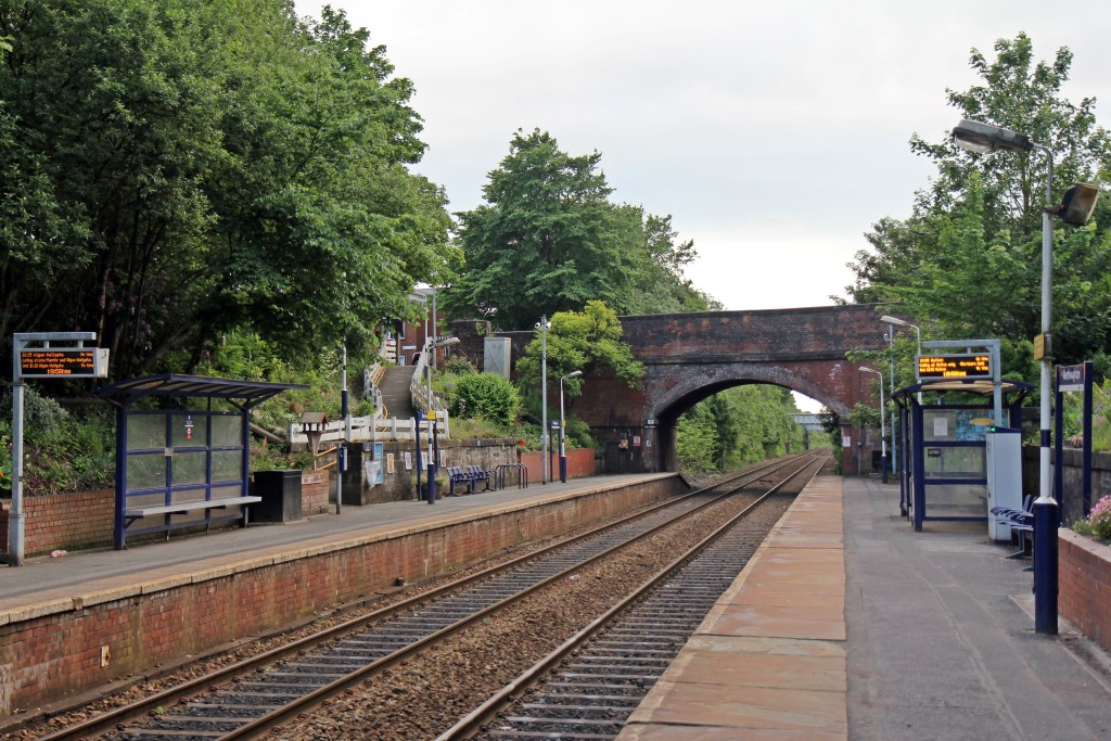 Platform furniture, Westhoughton railway station